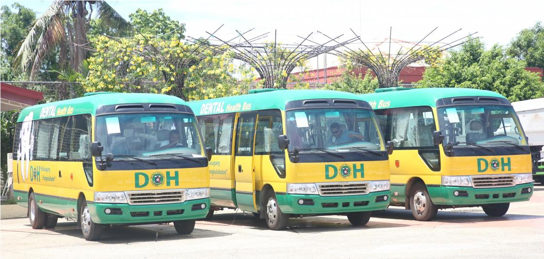 New dental buses donated by the Department of Health in Palawan. Each bus, has a dental chair, x-ray, compressor and other components that will definitely improve the dental health care program in the province. Filipino: Bagong-bagong ang mga dental Bus na donasyon ng DOH (Department of Health) sa Palawan. Bawat bus ay may dental chair, x-ray, compressor at iba pang kasangkapan na tiyak na magpapalakas sa dental health care program ng lalawigan.